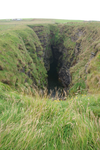 The Gloup Looking inland across this spectacular partially-collapsed sea cave.